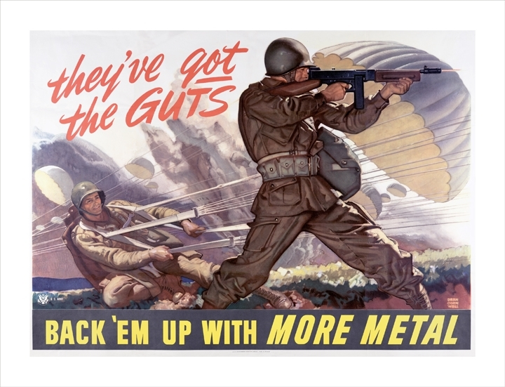 The courage of airborne soldiers was invoked in this World War II poster to encourage American citizens to donate scrap metal to the war effort.